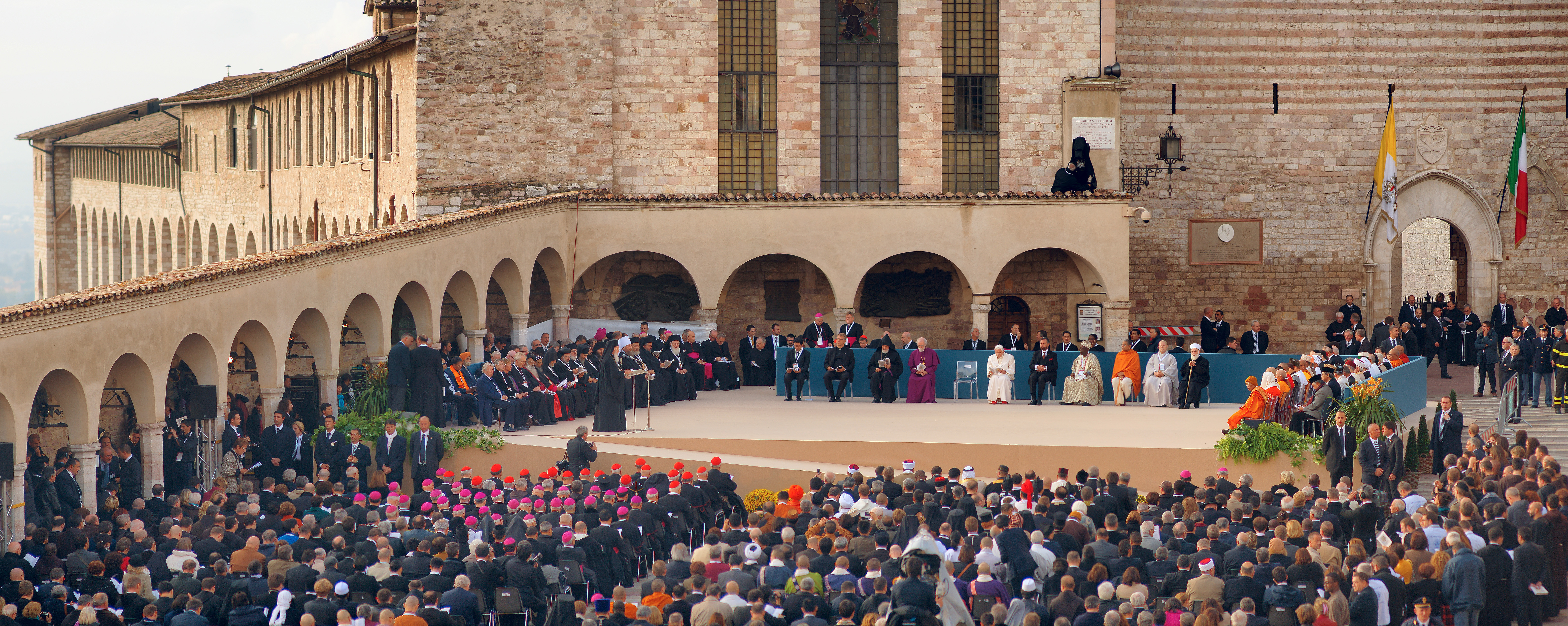 4th World Day of Prayer for Peace, Assisi (Italy), Oct 27, 2011